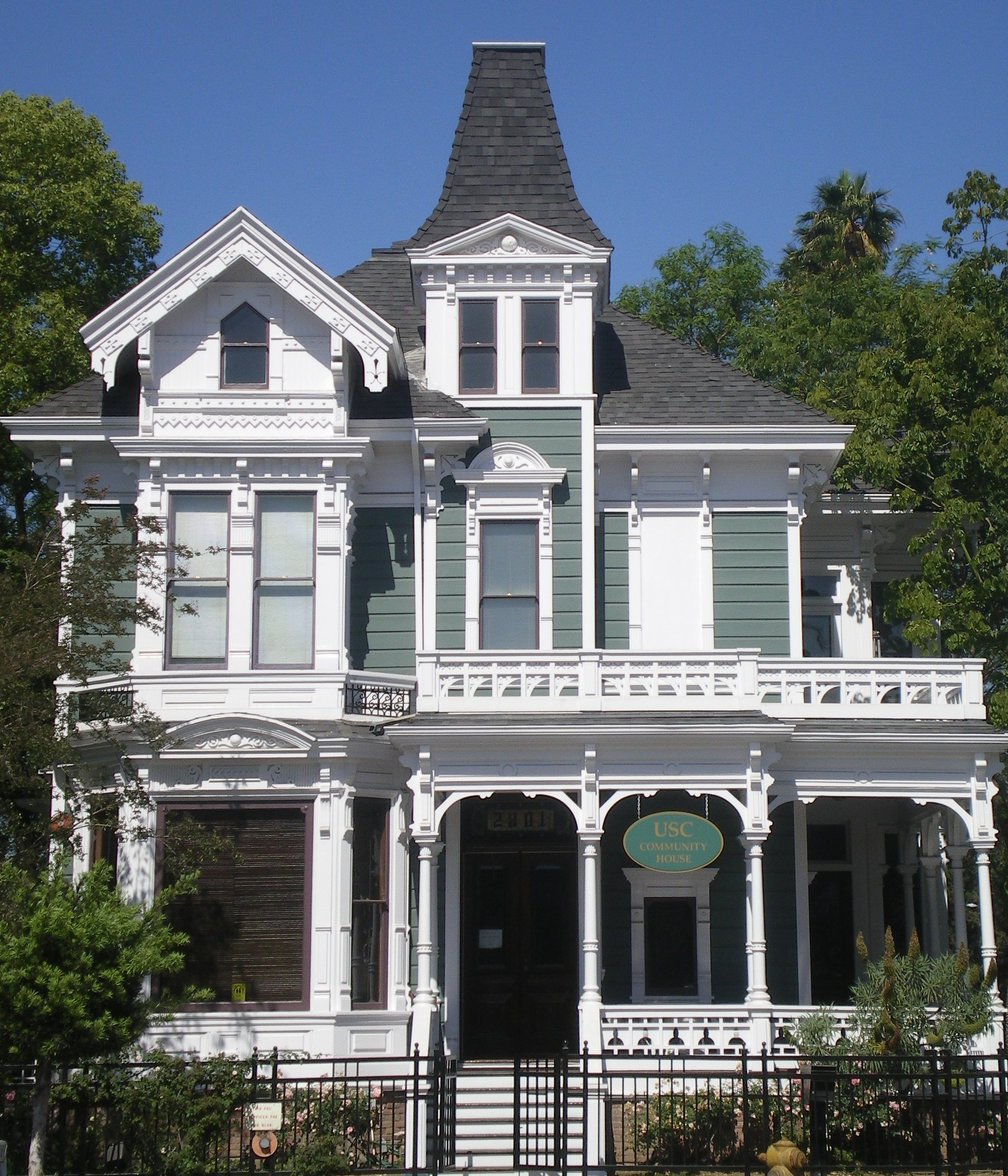 USC Community House, 28th and Hoover Streets, Los Angeles, California. Los Angeles Historic-Cultural Monument.